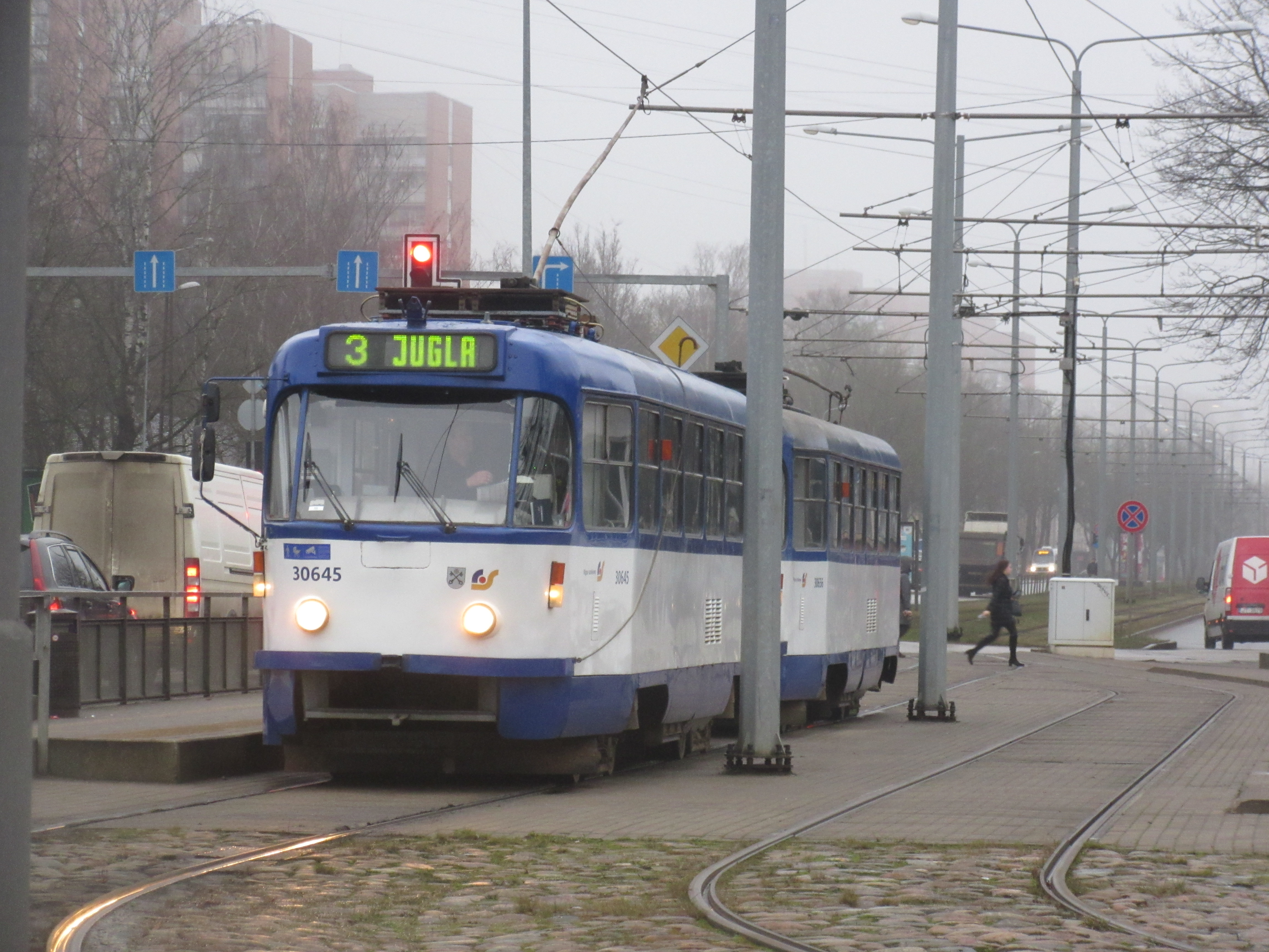 3. tramvajs in Jugla